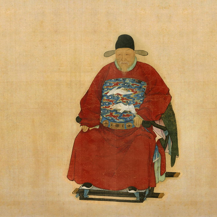 Shen Du